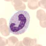 Neutrophile stick-nucleated Granulocyte